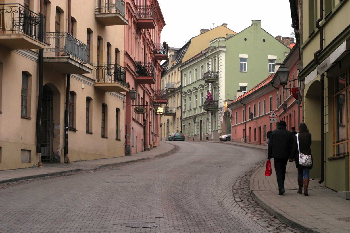 One of the Užupis Republic streets.